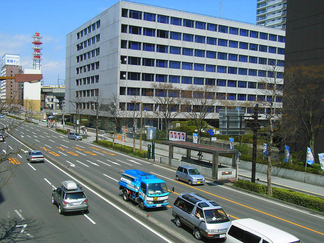 The Entrance 3 of the Itsutsubashi Station of the Sendai Subway. Sendai, Miyagi prefecture, Japan.